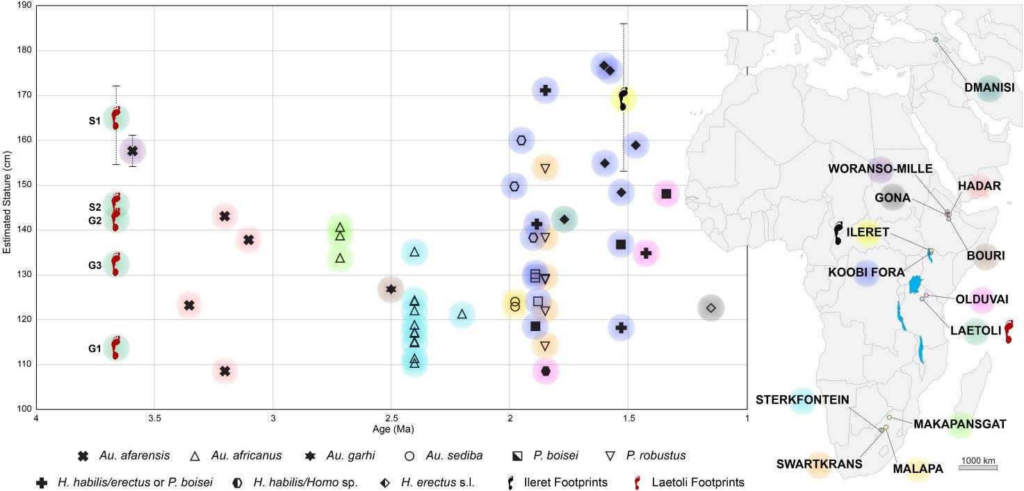 Estimates of predicted stature of fossil hominin individuals by species over time for the interval 4–1 Ma. Solid symbols (or crosses in bold) refer to stature estimates based on actual femur length; open symbols refer to stature estimates based on estimated femur length, in turn based on femur head diameter. For Laetoli and Ileret, stature estimates are based on footprint length (see Materials and methods). For Laetoli, Ileret and Woranso-Mille, the average value and range of predicted stature are shown. Colours are associated to the geographical location of each fossil/footprint site on the map. See Supplementary file 5 for details.